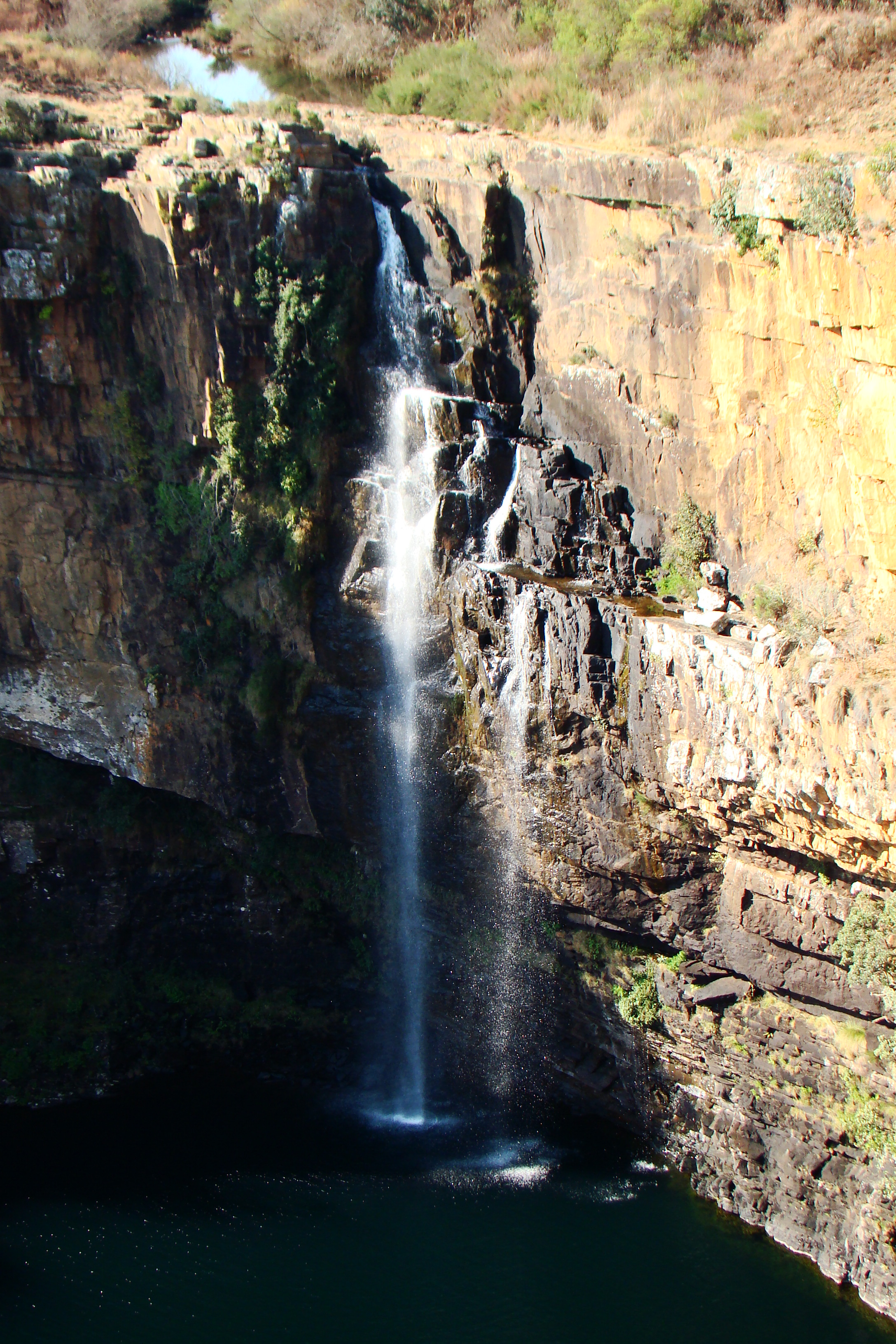 The Berlin Creek plunging over the Berlin Falls, near Blyde River Canyon, South Africa